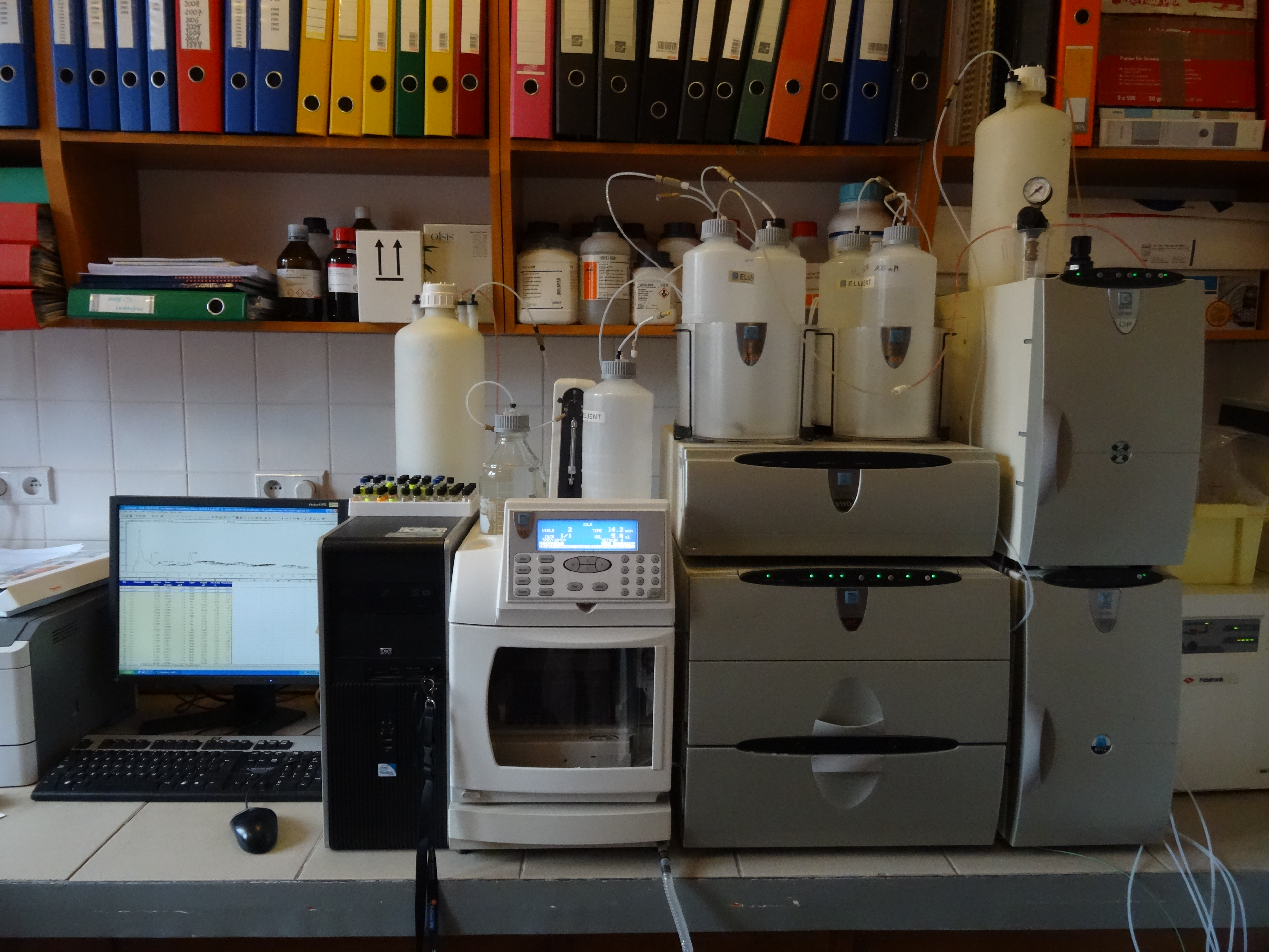 Dionex ICS-3000 ion chromatography system. Analytical Chemistry Department, Faculty of Chemistry, Gdańsk University of Technology